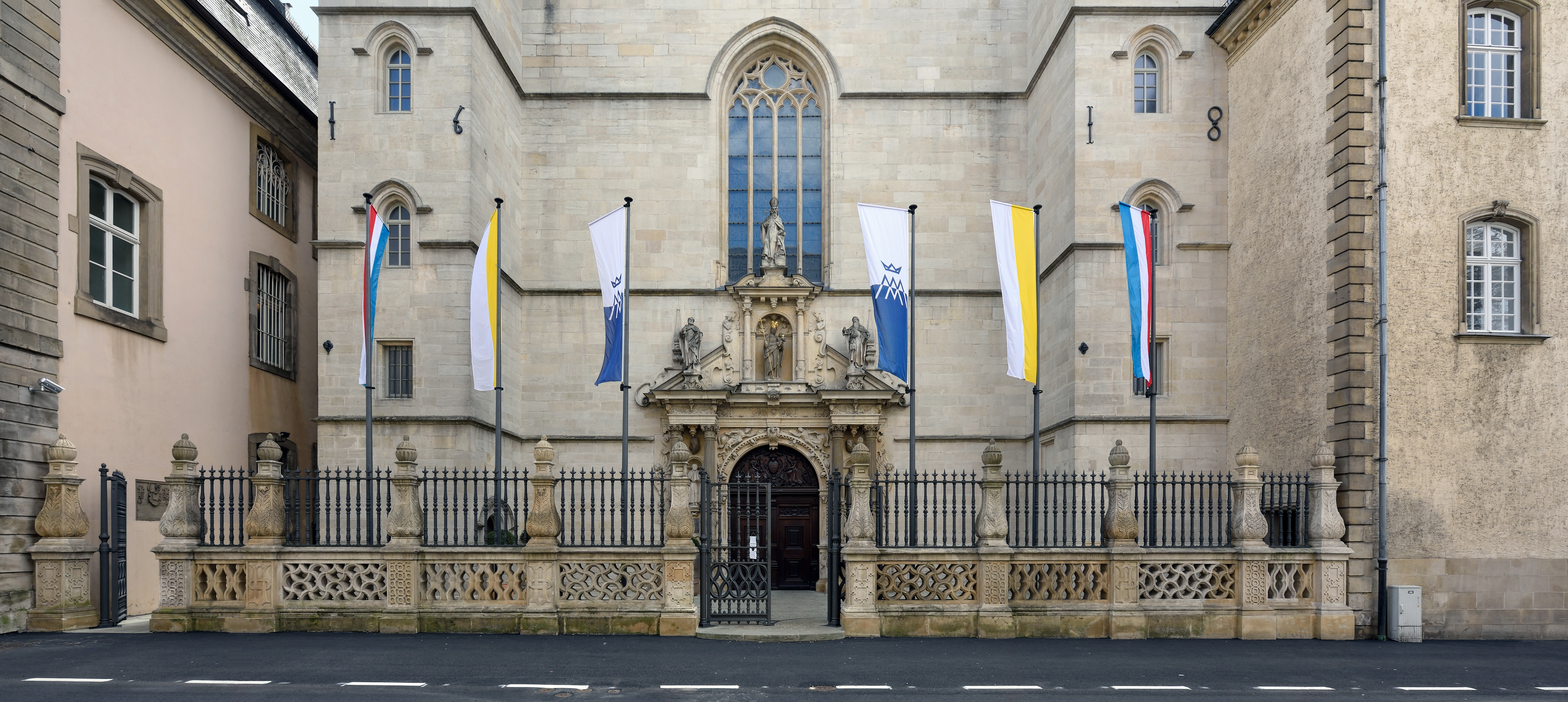 Portal of 1621 of Notre-Dame Cathedral in Luxembourg City during the Octave celebration in 2016.